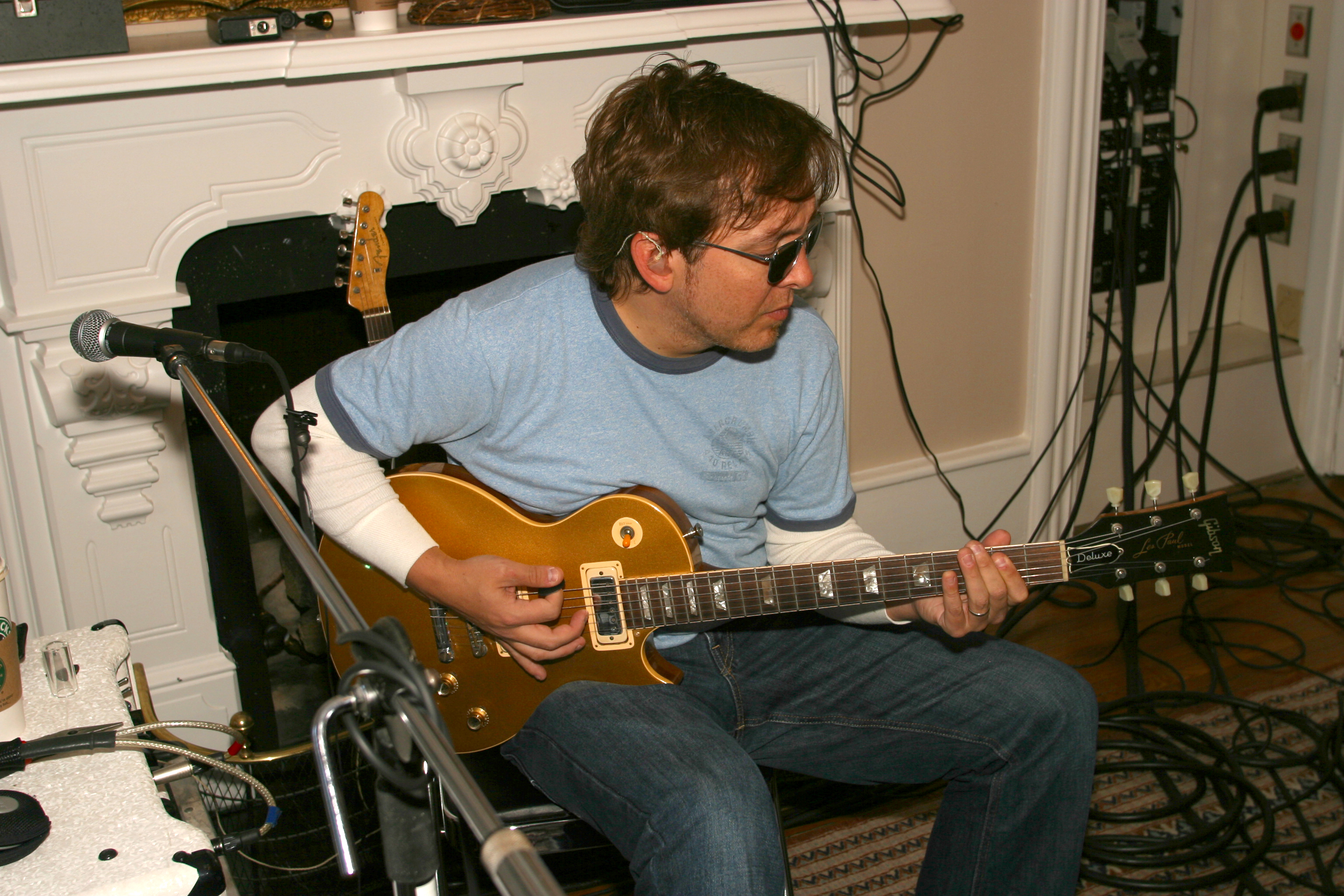 Owsley playing guitar.